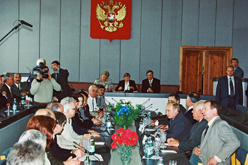 NALCHIK. President Vladimir Putin with Kabardino-Balkarian University professors.